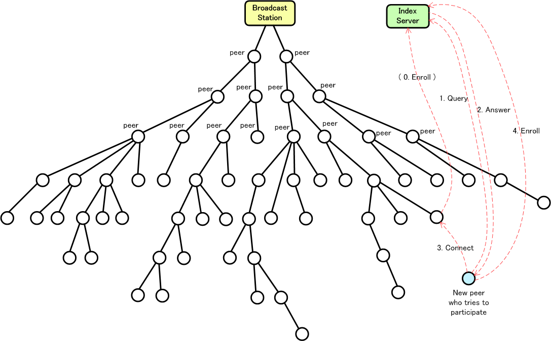 Outline of Overlay Multicast.